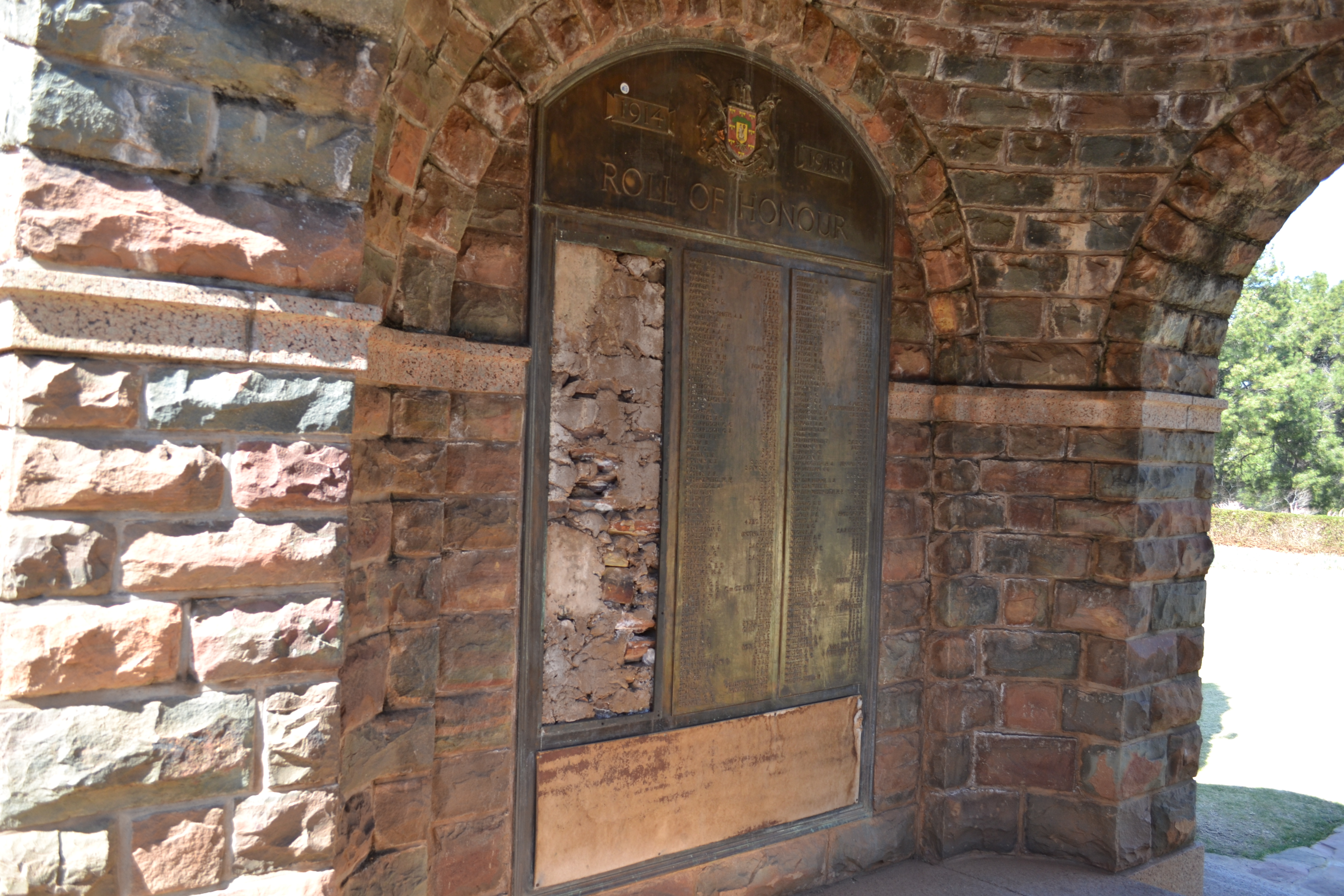 Union Buildings Pretoria This media shows a South African Protected Site with SAHRA file reference 9/2/258/0067 .